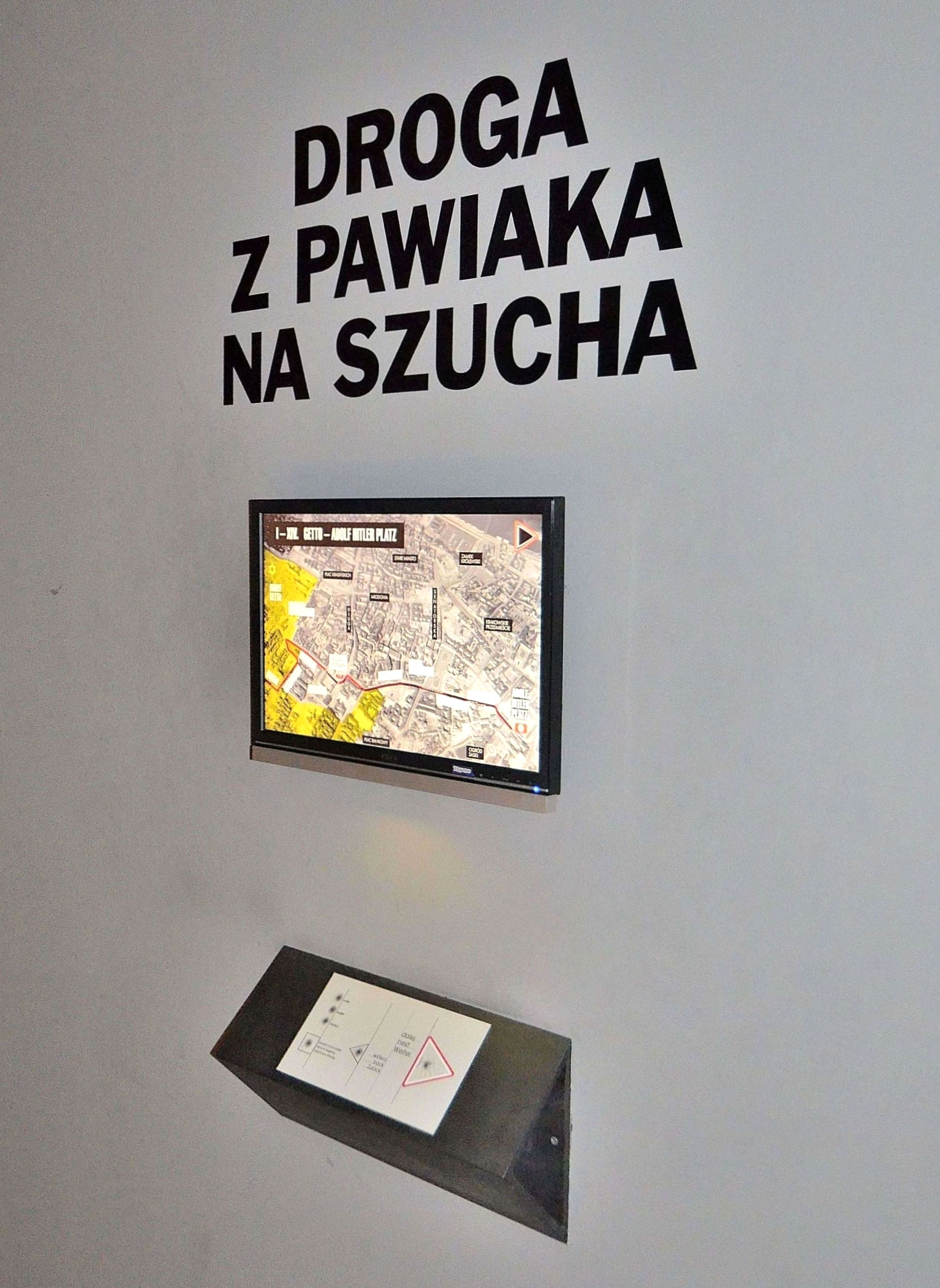 Mausoleum of Struggle and Martyrdom in Warsaw